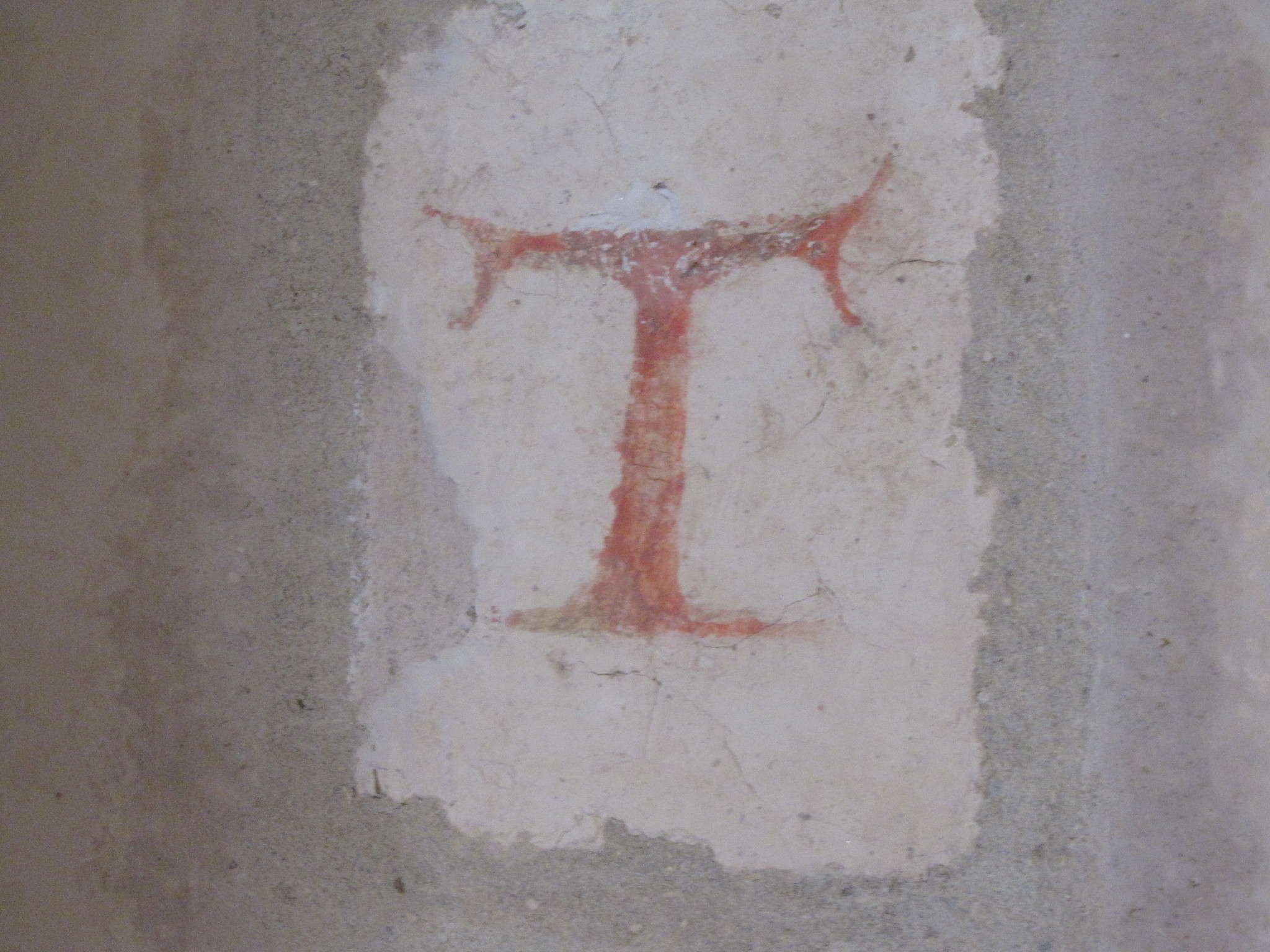 Franciscan sanctuary of Fonte Colombo in Rieti (Lazio, Italy)